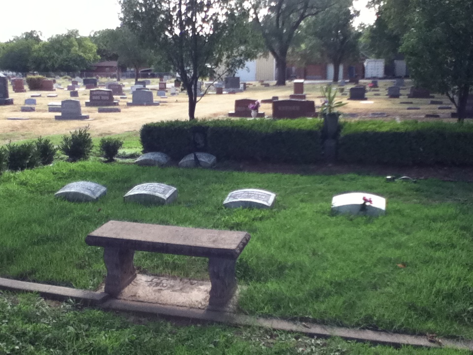 The gravesites of Herbert Hiram Champlin and family are located here in the Enid Cemetery.